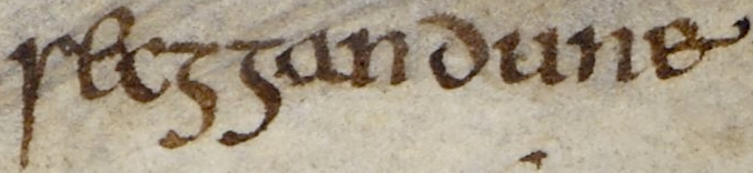 Secggan dune (later Secandune, nowadays Seckington); from the Anglo-Saxon Chronicle.